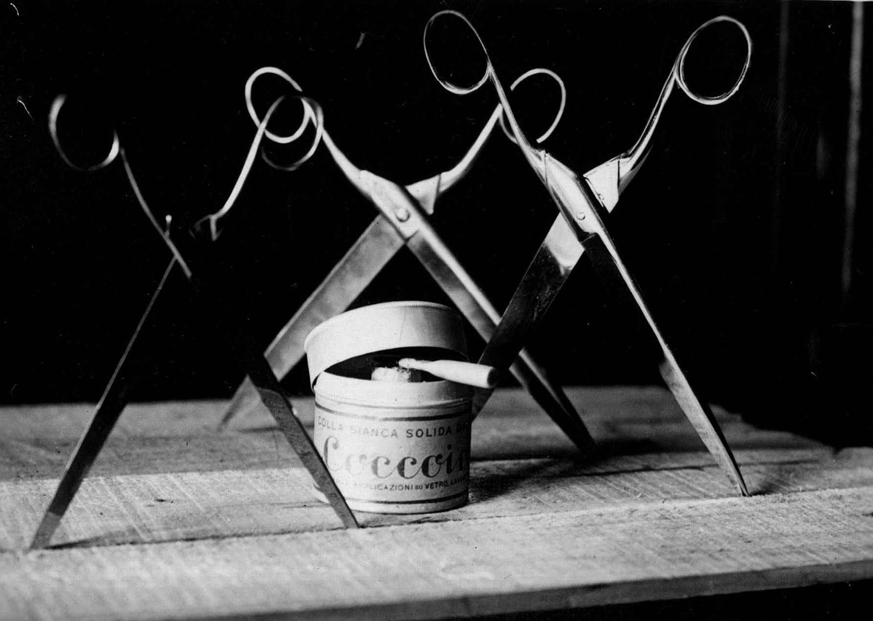 Strumenti arte